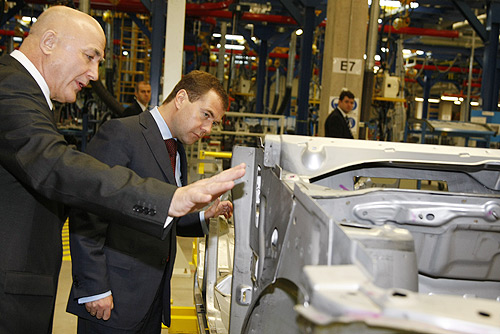 ST PETERSBURG, SHUSHARY. With General Motors managing director in charge of the construction of new GM plants John Burton.